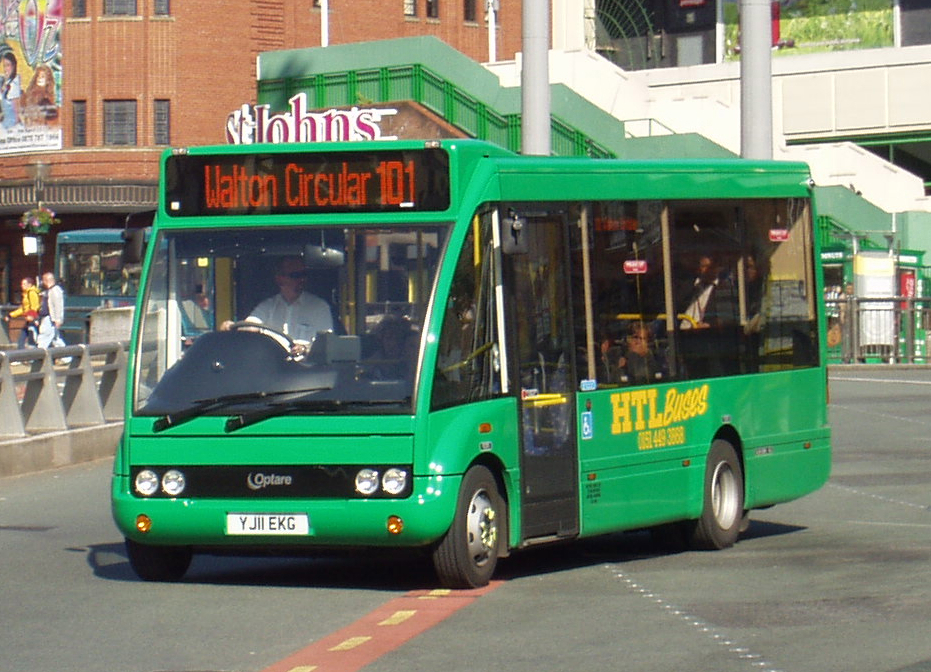 HTL Buses bus (reg. YJ11 EKG), a 2011 Optare Solo M710SE midibus, in Queen Square Bus Station, Liverpool.